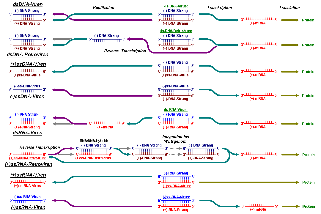 Overview of the replication, transcription, and translation pathways of several virus classes